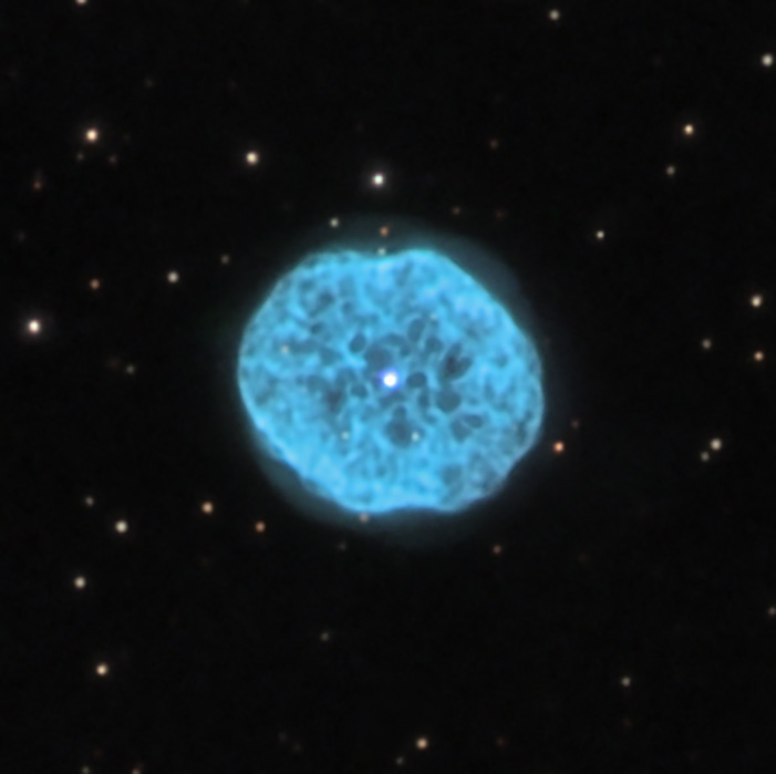 Optics 32-inch Schulman Telescope (RCOS) Camera SBIG STX16803 CCD Camera Filters Astrodon Gen II Dates May 2013 Location Mount Lemmon SkyCenter Exposure RGB = 60:60:60 minutes Acquisition Astronomer Control Panel (ACP), Maxim DL/CCD (Cyanogen), FlatMan XL (Alnitak) Processing CCDStack v2 (CCDWare), Photoshop CC (Adobe), PixInsight Credit Line & Copyright Adam Block/Mount Lemmon SkyCenter/University of Arizona